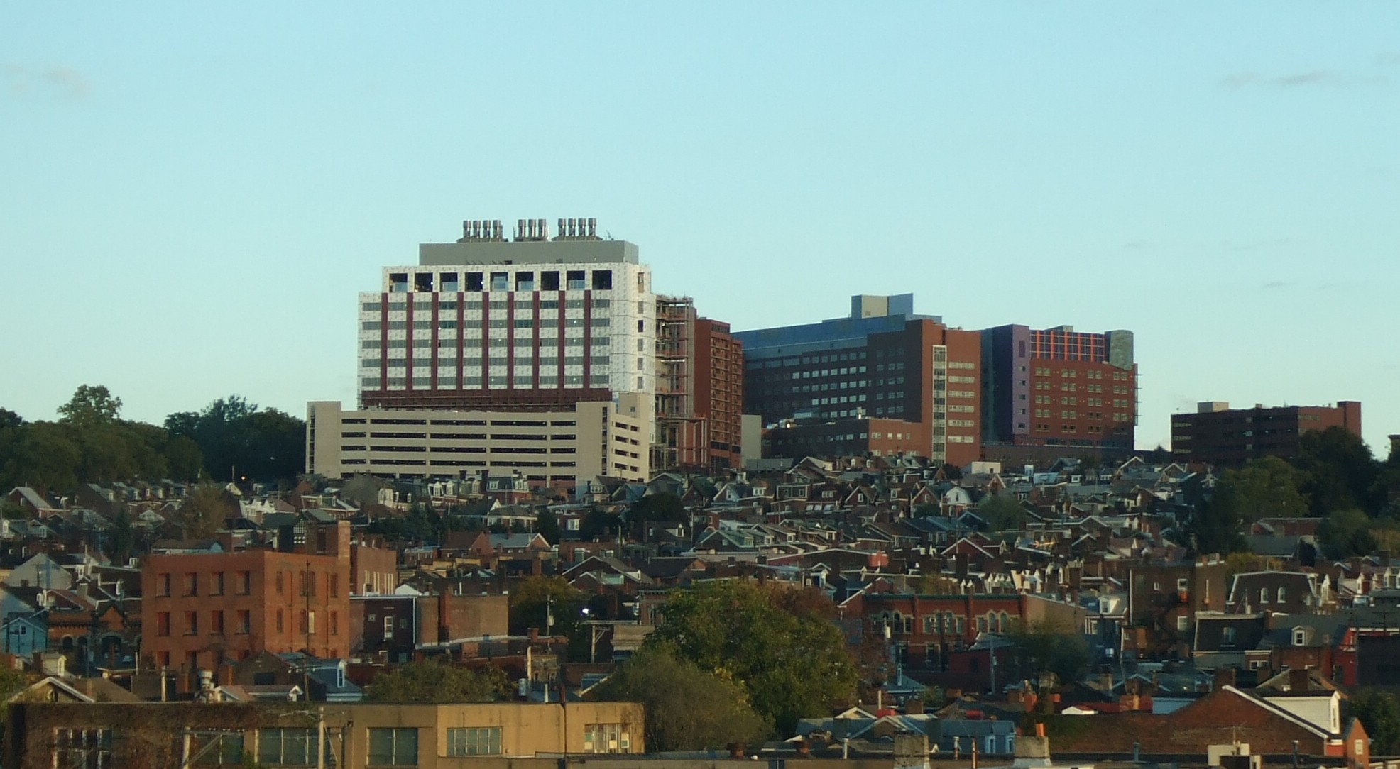 This is an image of Children's Hospital of Pittsburgh of UPMC, located in Pittsburgh, Pennsylvania. The site is currently under construction. The first building from the left (with white Tyvek) is the John G. Rangos Sr. Research Center. To its right, the colorful building, is the main hospital. Buildings not easily visible in image: faculty pavilion, administrative office building, and a central plant. Currently, all buildings of the new campus are under construction; none are operational. Expected completion is set for 2009.